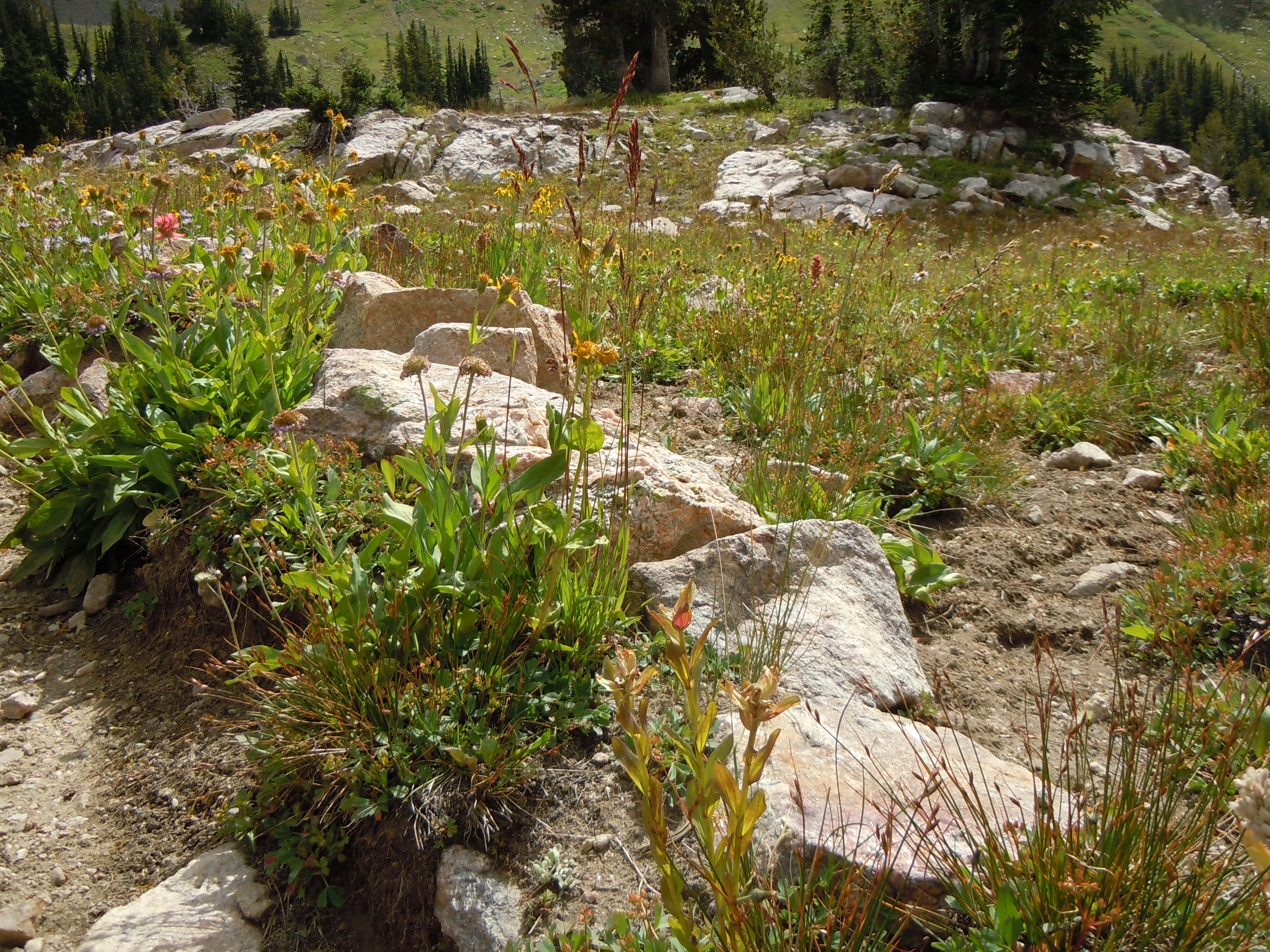 Poa fendleriana (bunchgrass to the right) & Vahlodea atropurpurea (bunchgrass at center) are common in this subalpine setting.